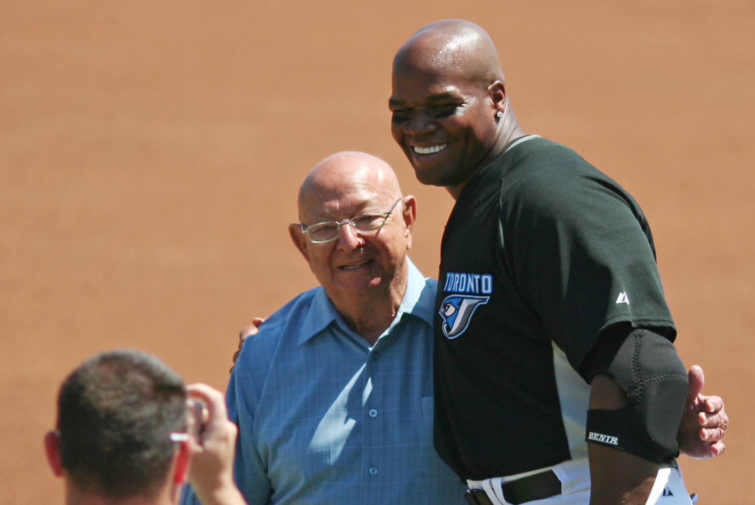 Frank Thomas and former trainer for boxer Mohammed Ali, Angelo Dundee, in Dunedin, Florida.